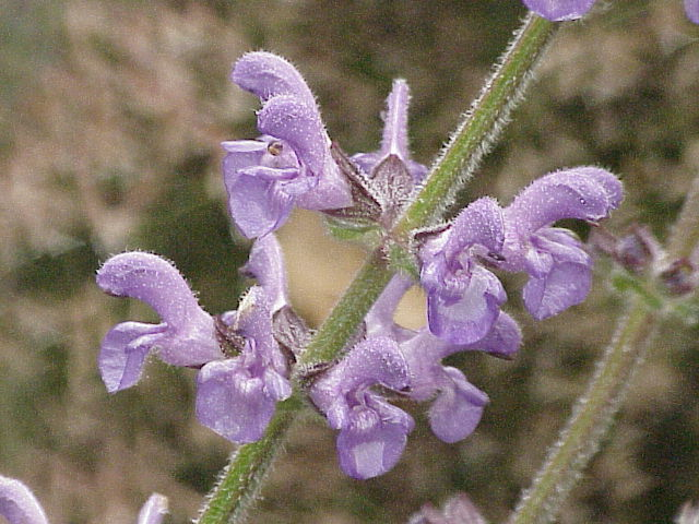 Species: Salvia kopetdaghensis Family: Lamiaceae Image No. 1